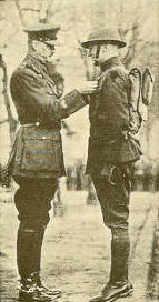 Original caption: "LT. SHERWOOD RECEIVES MILITARY CROSS." About This Book: Catalog Entry View All Images: All Images From Book Note About Images: Please note that these images are extracted from scanned page images that may have been digitally enhanced for readability - coloration and appearance of these illustrations may not perfectly resemble the original work.